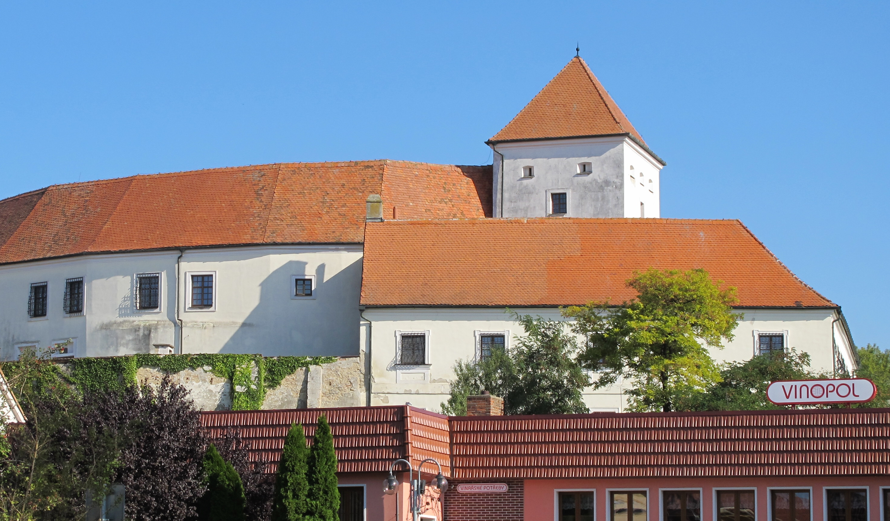 Čejkovice Castle, Hodonín District in Czech Republic